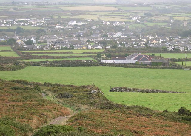 St Agnes from St Agnes Beacon. This photograph was taken from the Trig Point on St Agnes Beacon and looks east over the village of St Agnes. This photograph illustrates the number of 20th century houses which have been built out over the landscape surrounding the mainly 19th century village. Although almost impossible to see on this low resolution version of the photograph there are at least four old mine engine houses scattered amongst the houses.